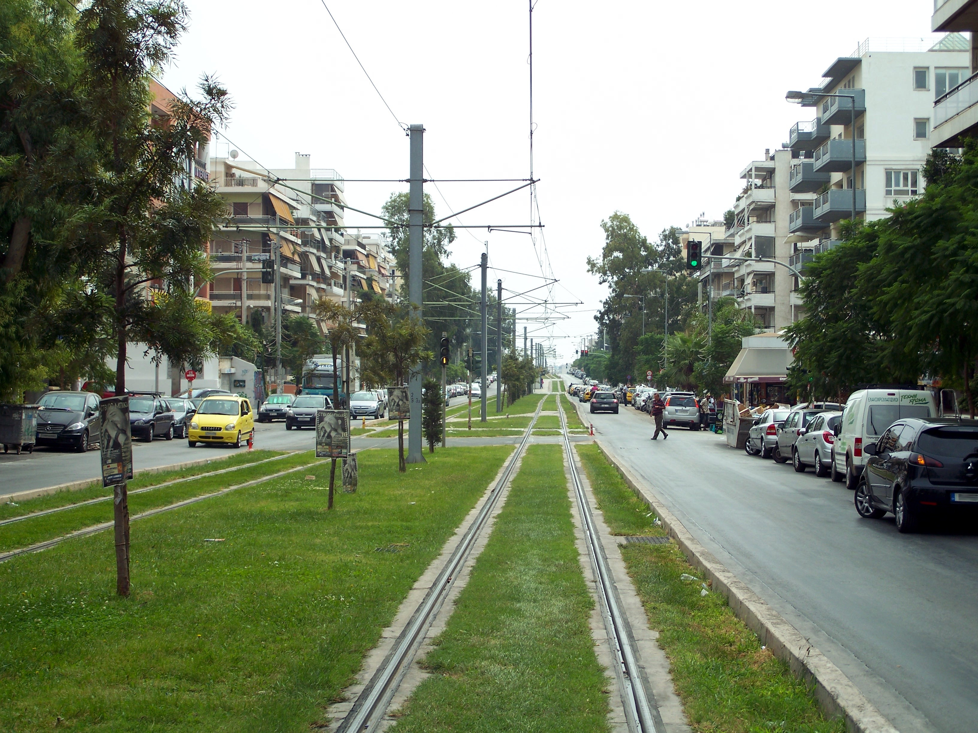 Eleftheriou Venizelou Ave., main street of Nea Smyrni in Athens.